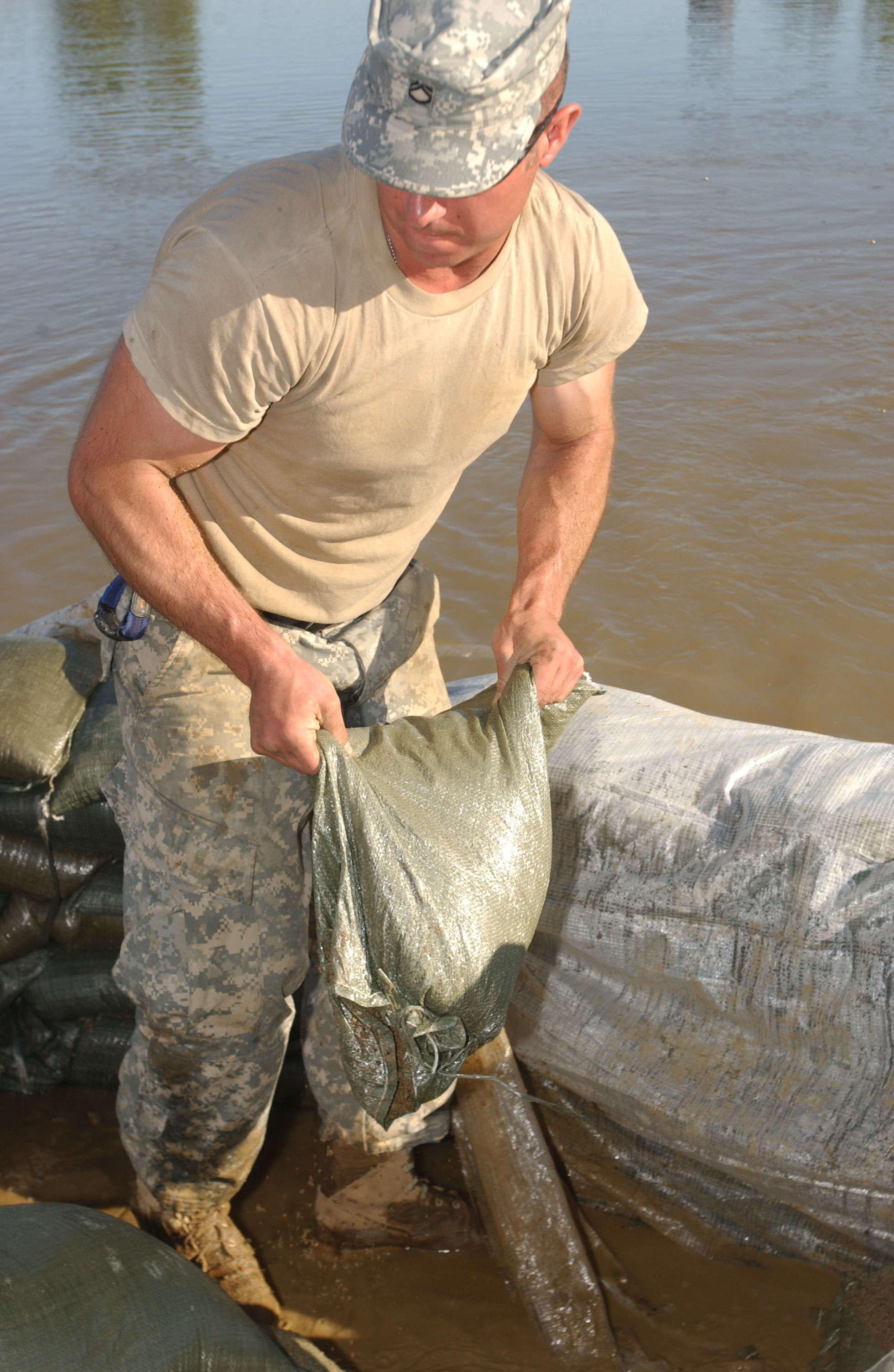 A member of the Iowa National Guard prepares to set a sandbag into place as part of a new 7-foot levee protecting an Ottumwa power sub-station. (Iowa National Guard photo by Sgt. Chad D. Nelson) This was taken during the Great Iowa Flood of 2008, and posted sometime after June 13, 2008